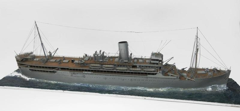 Model of the armed merchant cruiser HMS Rawalpindi.Harland and Wolff built the ship in Greenock and launched her in 1925 as a 16,619 GRT P&O passenger liner. The Admiralty requisitioned her in September 1939 and had her converted into an armed merchant cruiser. On 23 November 1939 the German battleships Scharnhorst and Gneisenau sank her by gunfire betwen Iceland and the Faroe Islands.